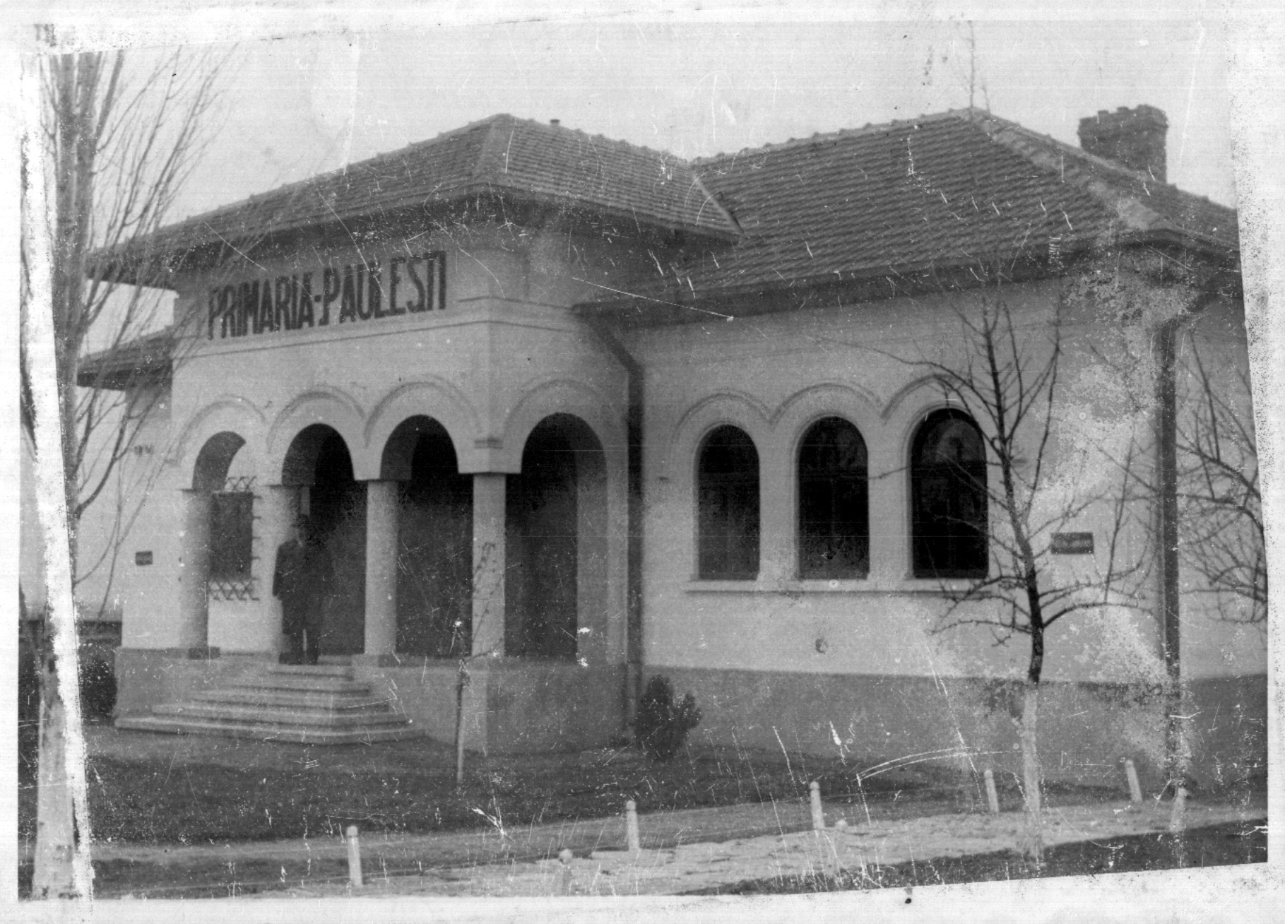 Town Hall of Pauleşti, Judeţul Prahova, Romania. Architect: Toma T. Socolescu. This building has been done between 1938 and 1939. We are the only heirs and descendants of Toma T. Socolescu (died in 1960 in Bucharest) and therefore owner of all his intellectual rights.